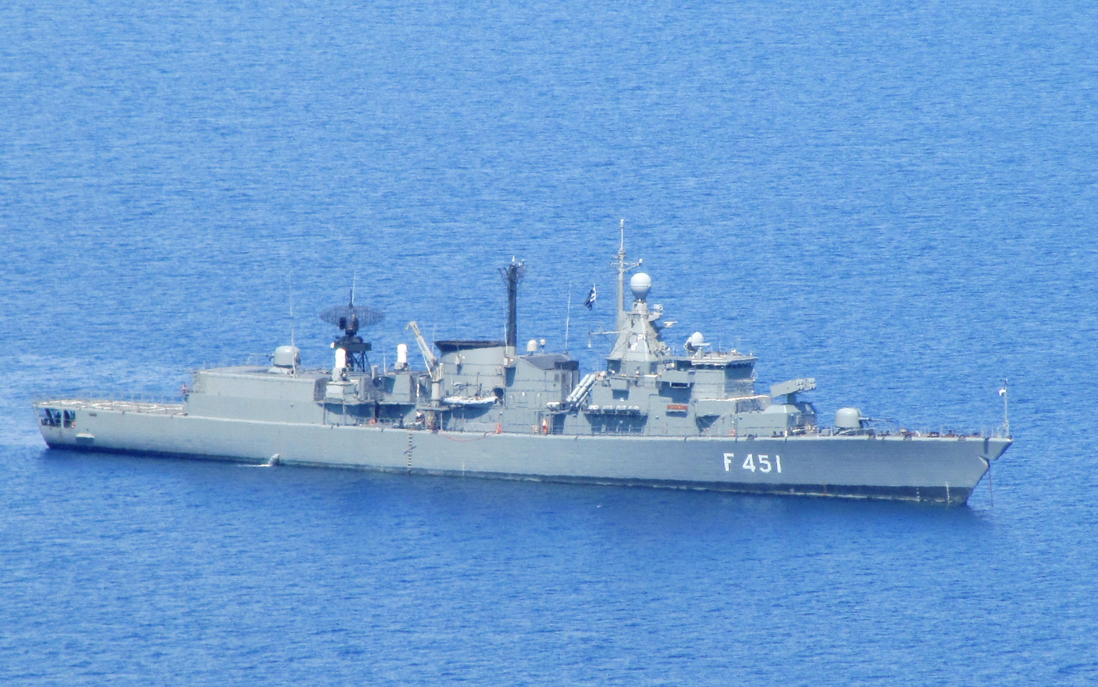 Greek Navy Ship Malonas Bay - Rhodes